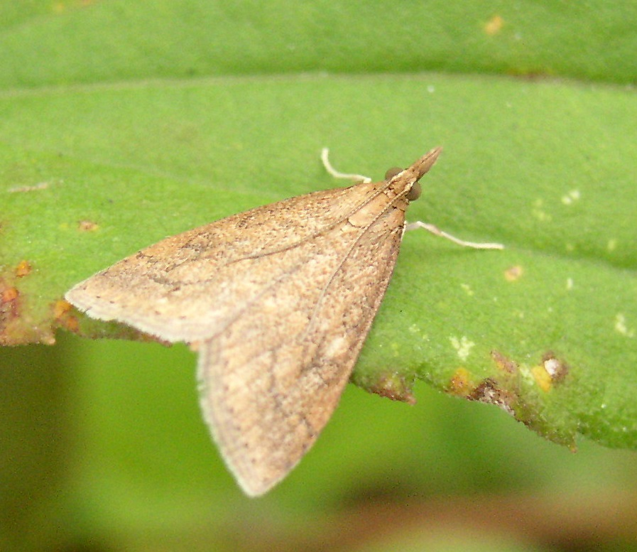 Celery Leaftier, Udea rubigalis, on goldenrod. Pennypack Restoration Trust, Montgomery County, Pennsylvania, USA.